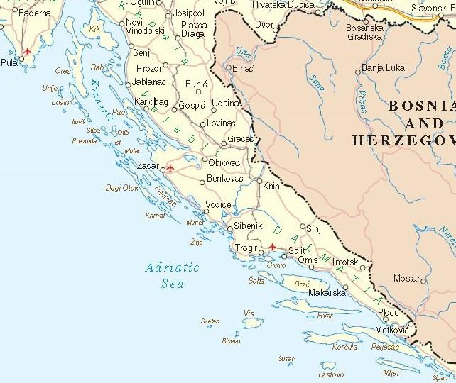 Adapted from